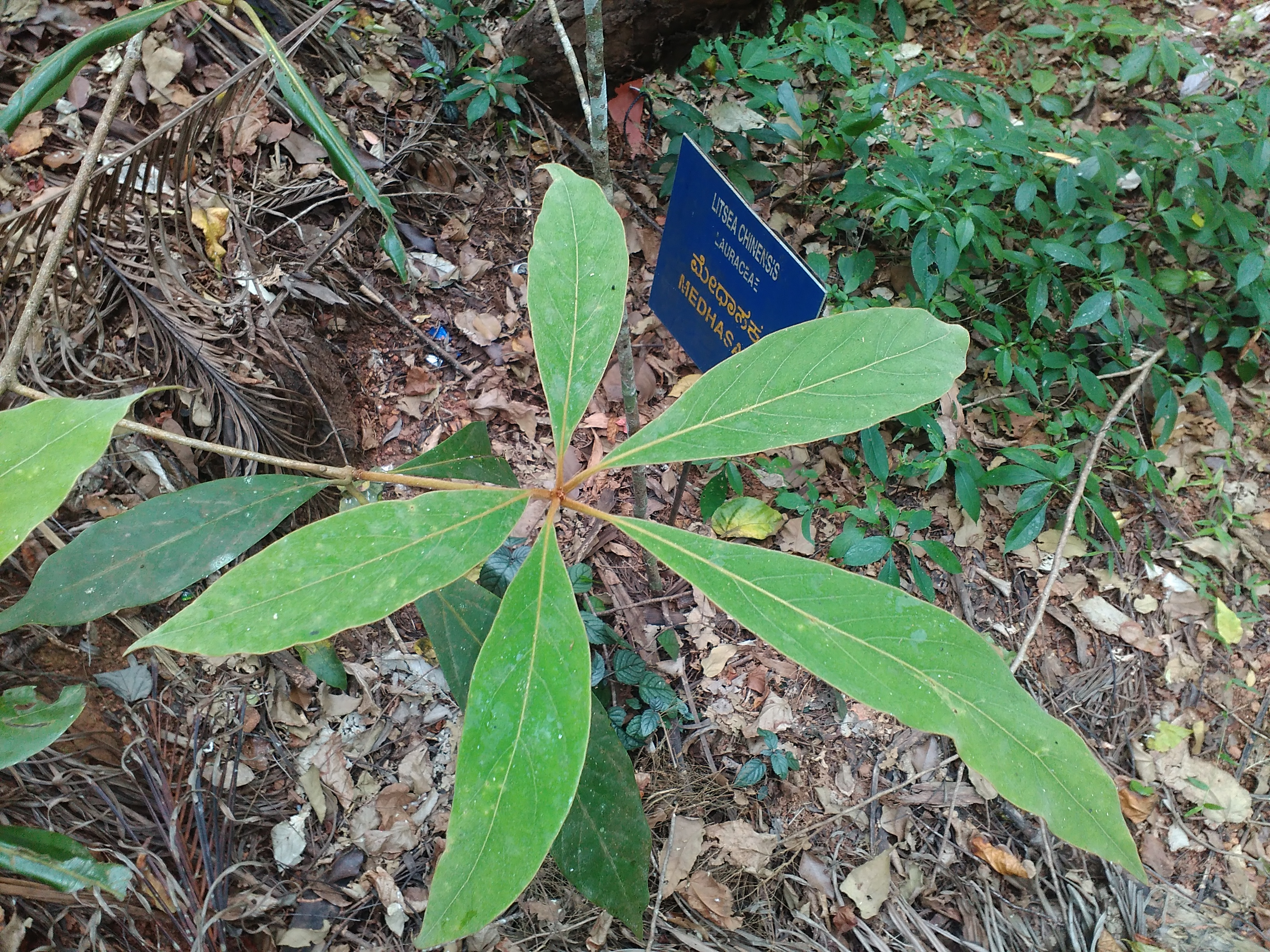 This photo of the plant Medhasaka is taken from Shobhavana of Mijar